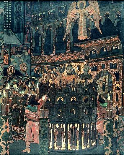 Costume devotion of Fiery Furnace before Christmas Liturgy in Russian Orthodox Church. «Пещное действо»